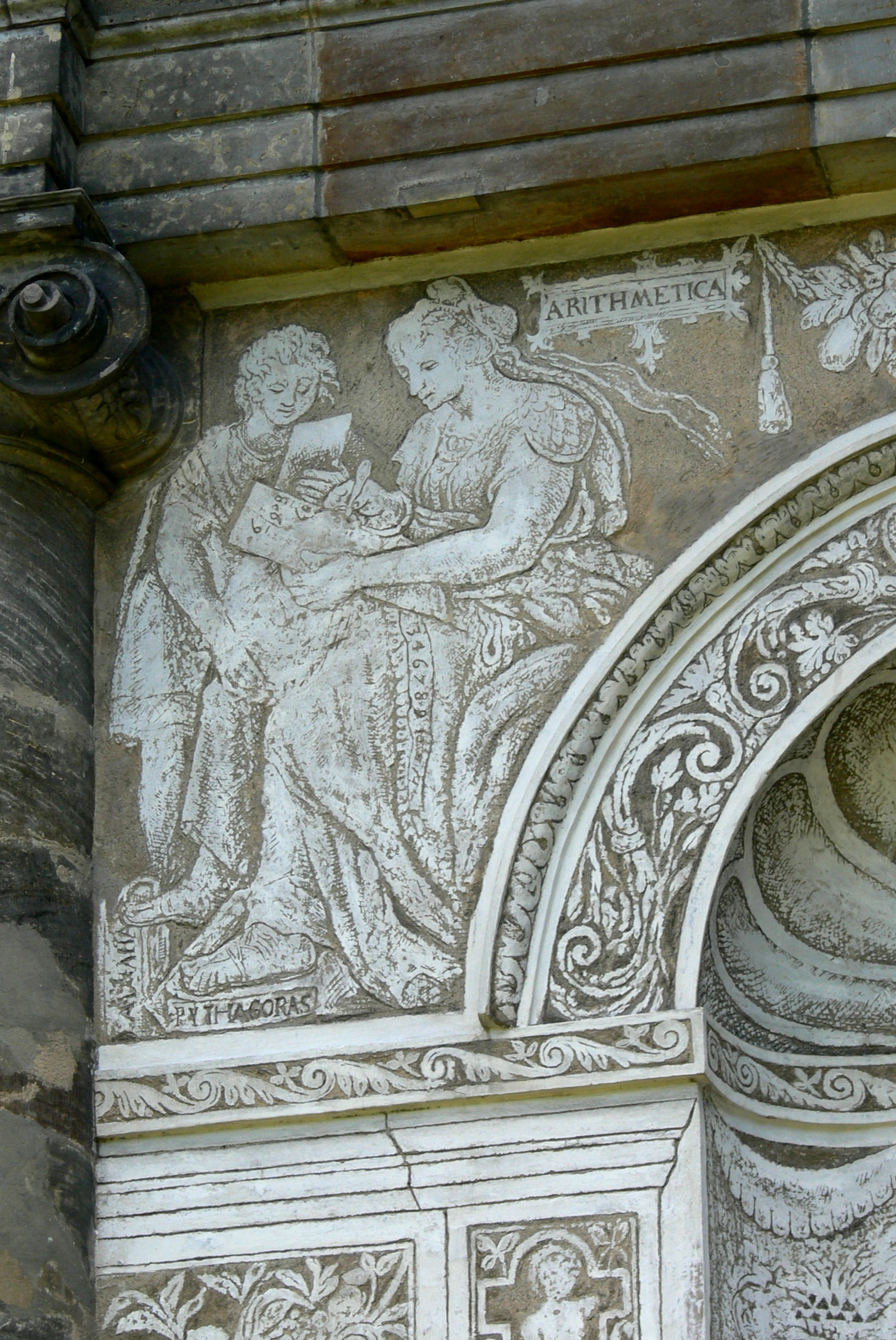 The Ball game hall ( Prague castle ). Sgraffito showing an allegory of arithmetics.